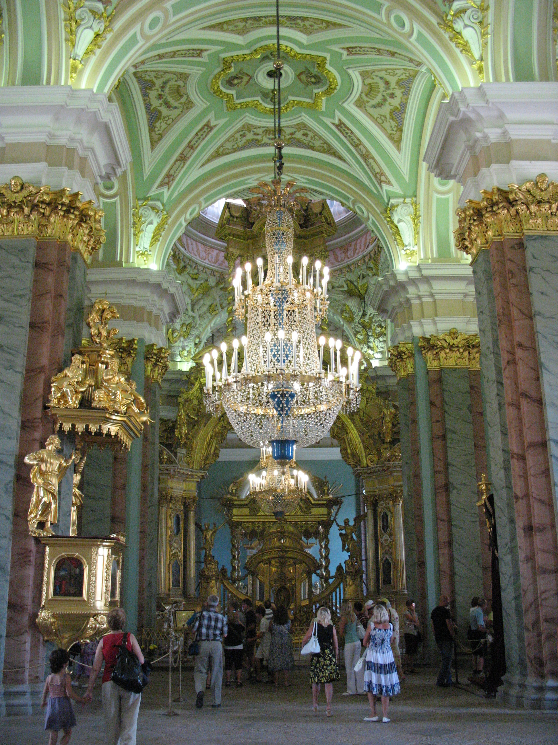 Saint Petersburg. Peter and Paul Fortress. Peter and Paul Cathedral